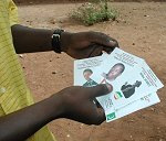 Ballot cards in the April 2002 general elections, Bamako Mali